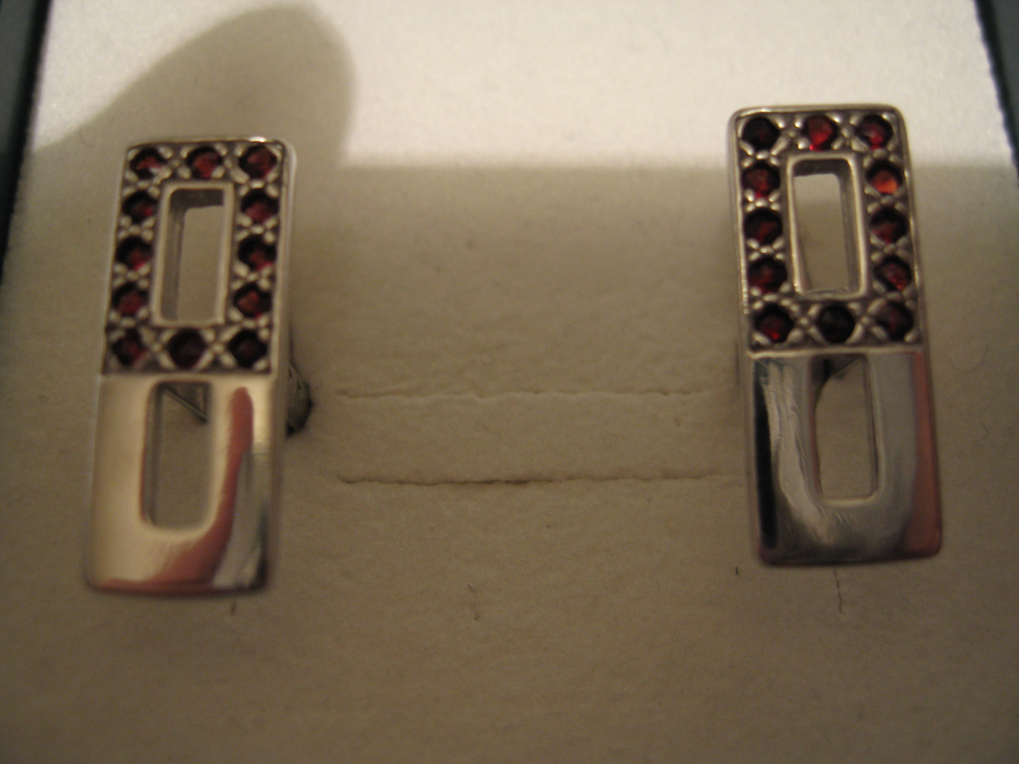 Cufflinks made of silver with Czech garnets by Granat Turnov factory.